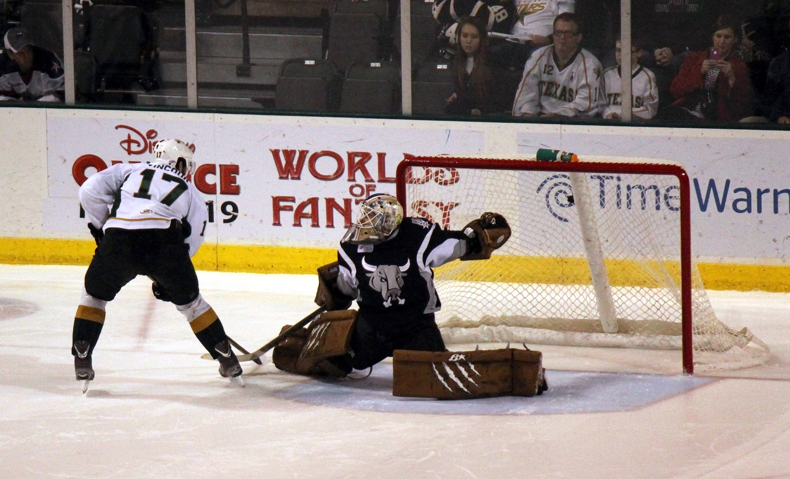 Tomas Vincour of the Texas Stars scores a shootout goal against Dov Grumet-Morris of the San Antonio Rampage